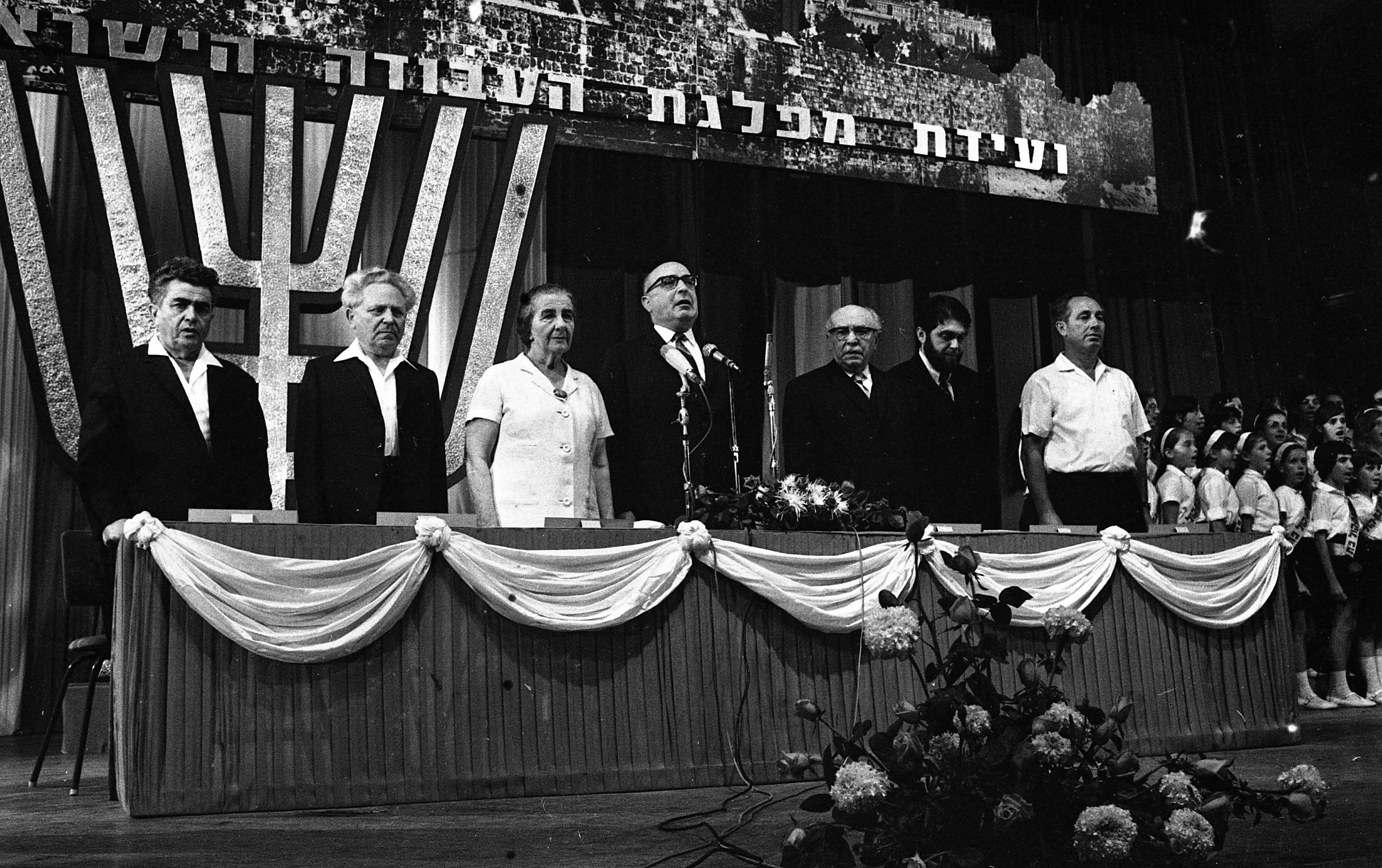 Labour party convention.